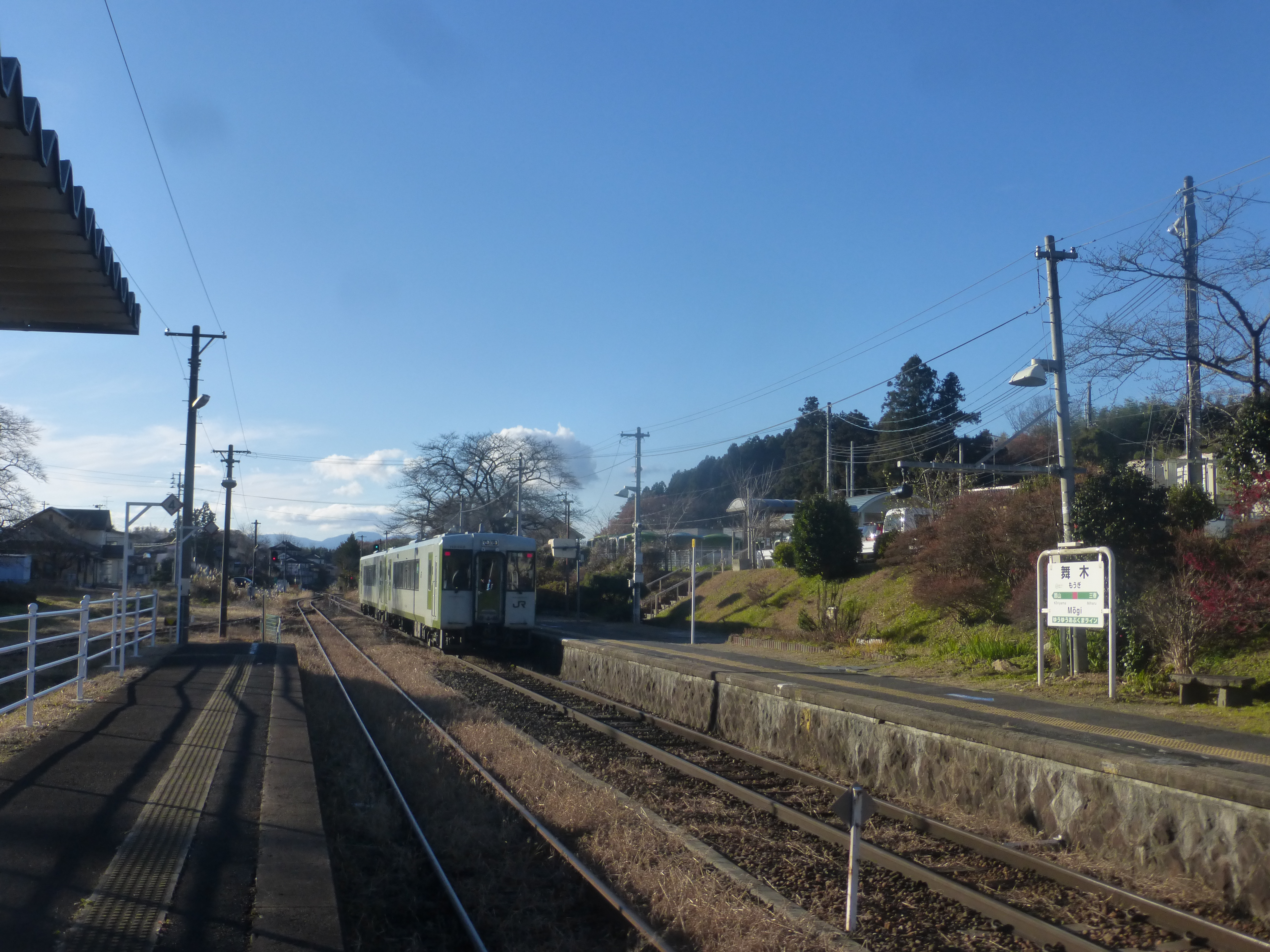 Mōgi Station platforms (舞木駅のホーム)